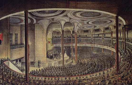 Theater performance inside Castle Garden (now Castle Clinton National Monument), a former fort, in New York City, 1824